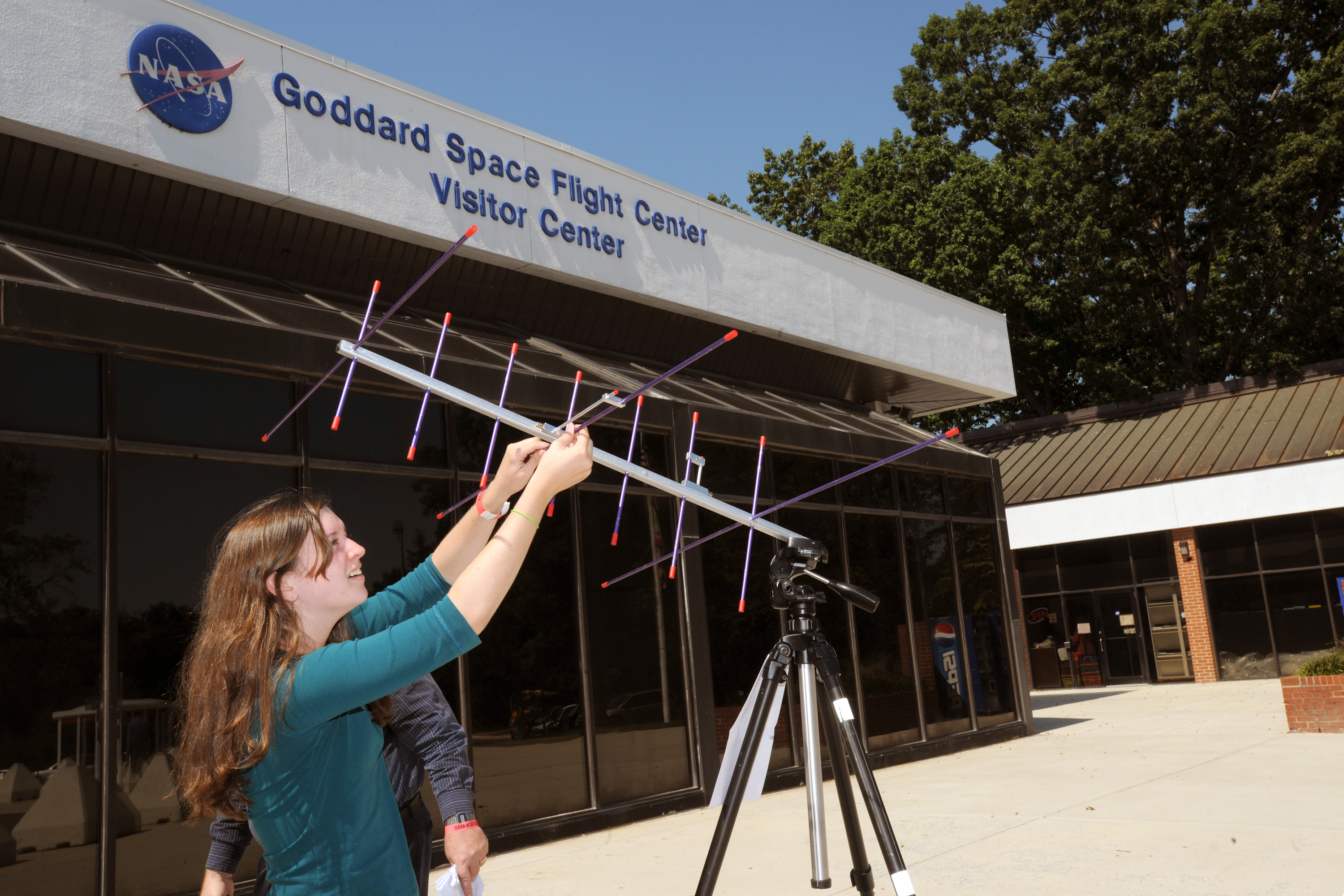 Employees were invited to listen to a question-and-answer session between students from the Goddard Child Development Center, local students and residents aboard the International Space Station on Thursday, Sept. 13, beginning 12:40 p.m. EDT. This was a rare opportunity, via amateur radio, for students to talk directly to astronaut Akihiko Hoshide about living and working aboard the orbiting facility. Attending this event were students from the Goddard Child Development Center, the Robert Goddard French Immersion School, and the Prince George’s County Howard B. Owens Science Center. This was made possible through Amateur Radio on the International Space Station (ARISS), a cooperative venture among NASA and other international space agencies that coordinates scheduled, radio contacts with students and astronauts aboard the station. Teachers across varying content areas have incorporated lessons regarding space, astronomy, NASA, and the space station into their subject curriculum. ARISS and Teaching From Space, a NASA education initiative, encourage participating schools to lay such groundwork as part of its goal to instill interest in science, technology, engineering and math (STEM) subjects and careers among students. The ARISS radio contact is one in a series with educational activities in the U.S. and abroad to improve teaching and learning in STEM. This project promotes learning opportunities and builds partnerships with the education community using the unique environment of human spaceflight. NASA image use policy NASA Goddard Space Flight Center enables NASA’s mission through four scientific endeavors: Earth Science, Heliophysics, Solar System Exploration, and Astrophysics. Goddard plays a leading role in NASA’s accomplishments by contributing compelling scientific knowledge to advance the Agency’s mission. Follow us on Twitter Like us on Facebook Find us on Instagram